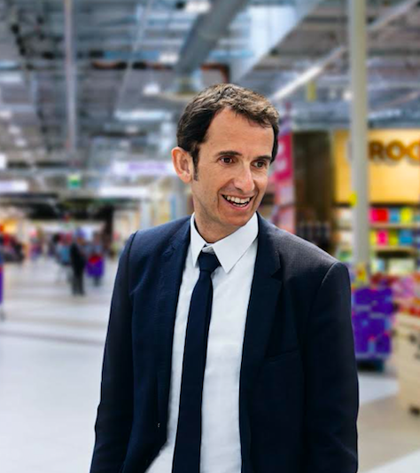 Alexandre Bompard, Carrefour CEO, in a Carrefour hypermarket.